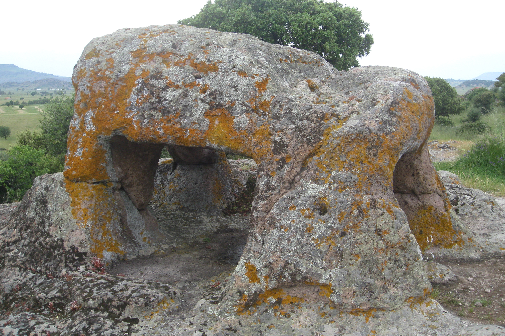 "Il toro", a sculpture nearby Necropolis Sant'Andria Priu, Sardinia